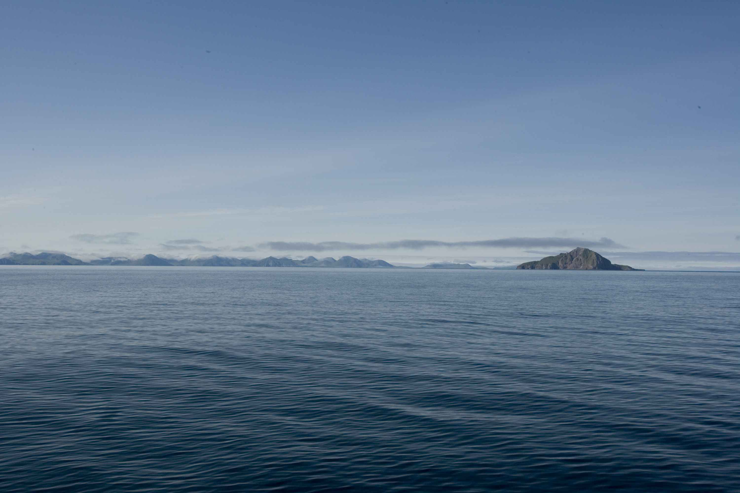 Image title: Aleutian islands ocean water Image from Public domain images website